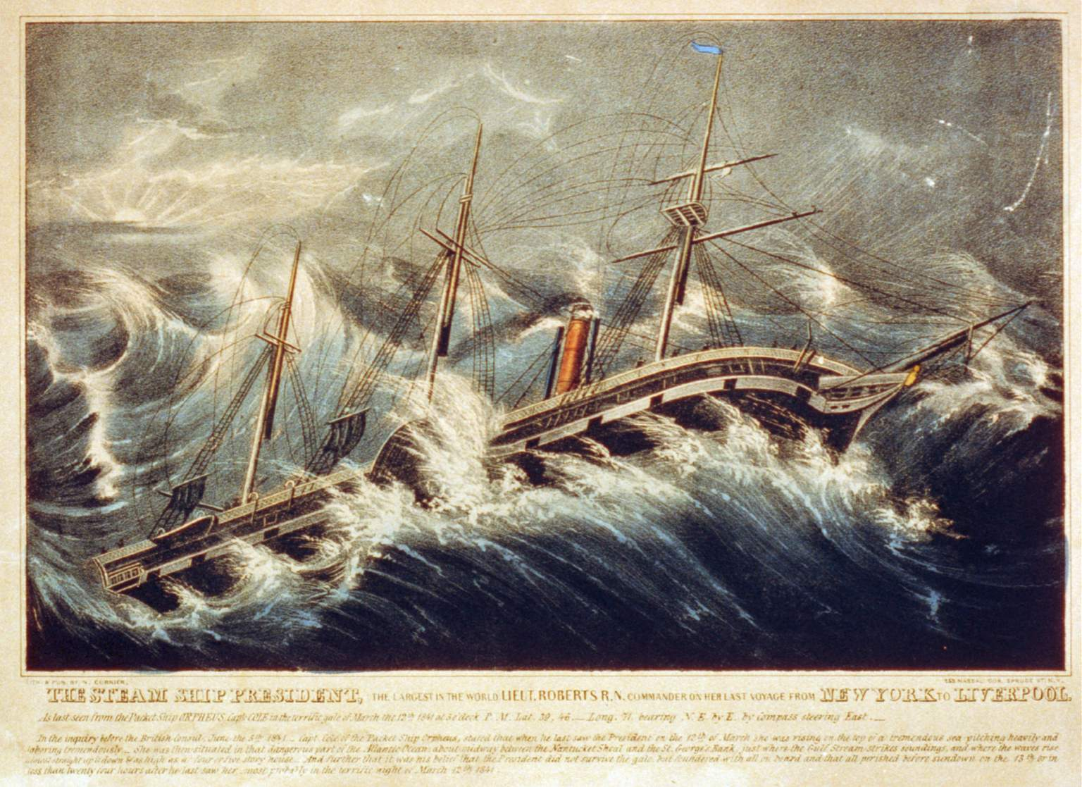 Original caption: "The Steam Ship President, The Largest in the World. Lieut. Roberts R.N. commander on her last voyage from New York to Liverpool. As last seen from the Packet Ship ORPHEUS Capt. COLE in the terrific gale of March the 12th 1841 at 5 o'clock P.M. Lat. 39, 46. Long. 71, bearing N.E. by E. by Compass steering East. In the inquiry before the British Consul, June the 5th 1841, Capt. Cole of the Packet Ship Orpheus, stated that when he last saw the President on the 12th of March she was rising on the top of a tremendous sea pitching heavily and laboring tremendously. She was then situated in that dangerous part of the Atlantic Ocean about midway between the Nantucket Shoal and the St. George's Bank, just where the Gulf Stream strikes soundings, and where the waves rise almost straight up & down & as high as a four or five story house. And further that it was his belief that the President did not survive the gale, but foundered with all on board and that all perished before sundown on the 13th or in less than twenty-four hours after he last saw her, most probably in the terrific night of March 12th 1841." (The painting's composition is strikingly similar to that in this lithograph, even though the latter one claims to depict an earlier storm which the President survived.)